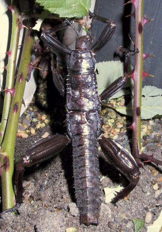 Eurycantha calcaratha male